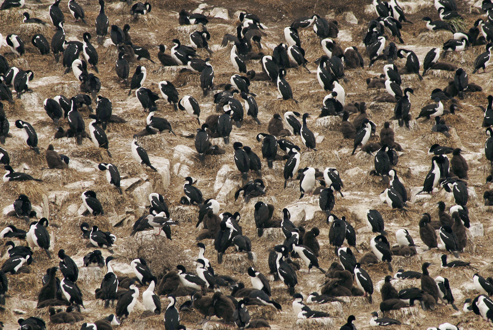 Imperial Shags, Phalacrocorax atriceps, Beagle Channel, Tierra del Fuego Own work